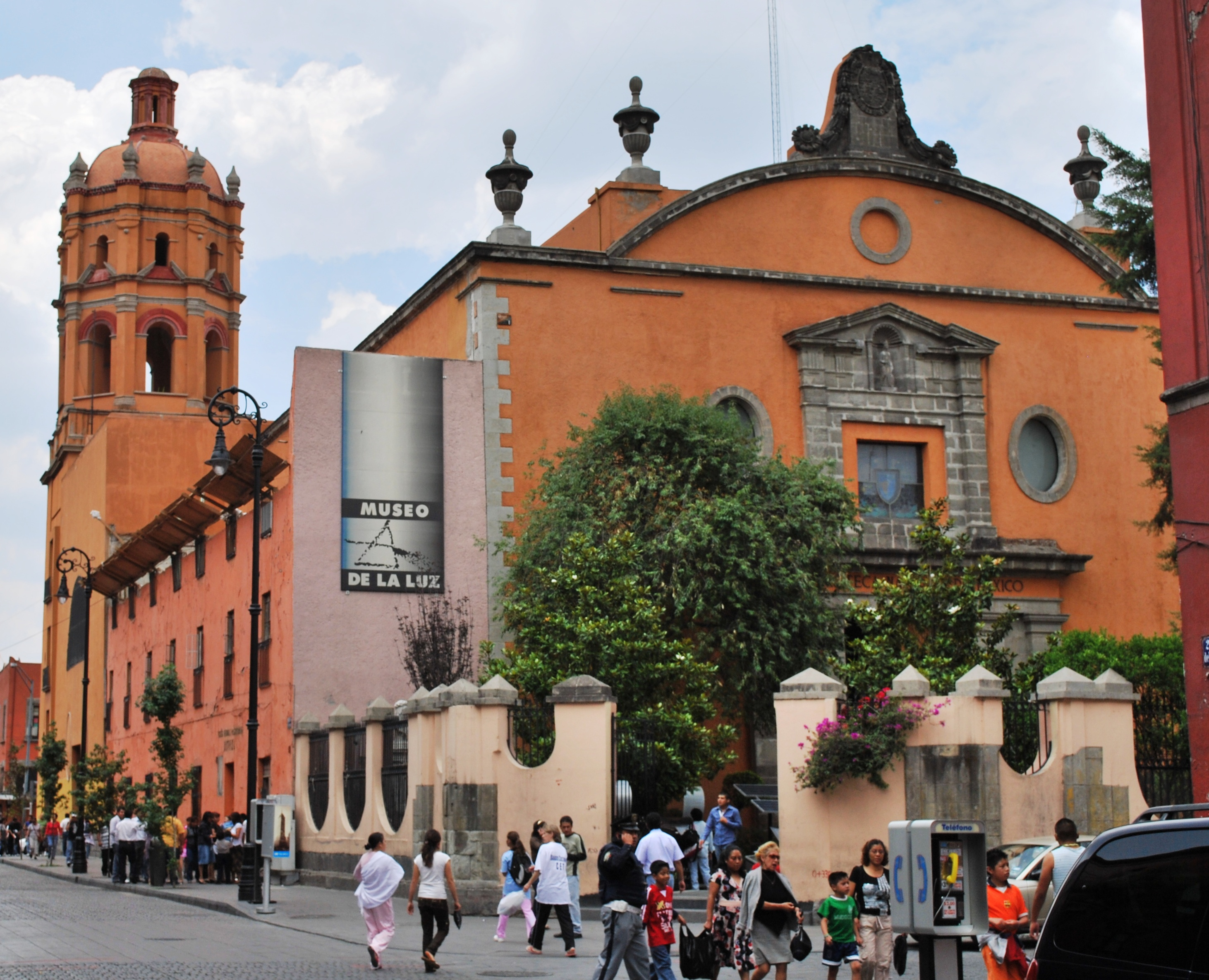 Facade of the church of the San Pedro y San Pablo College while the Museum of Light in the historic center of Mexico City.